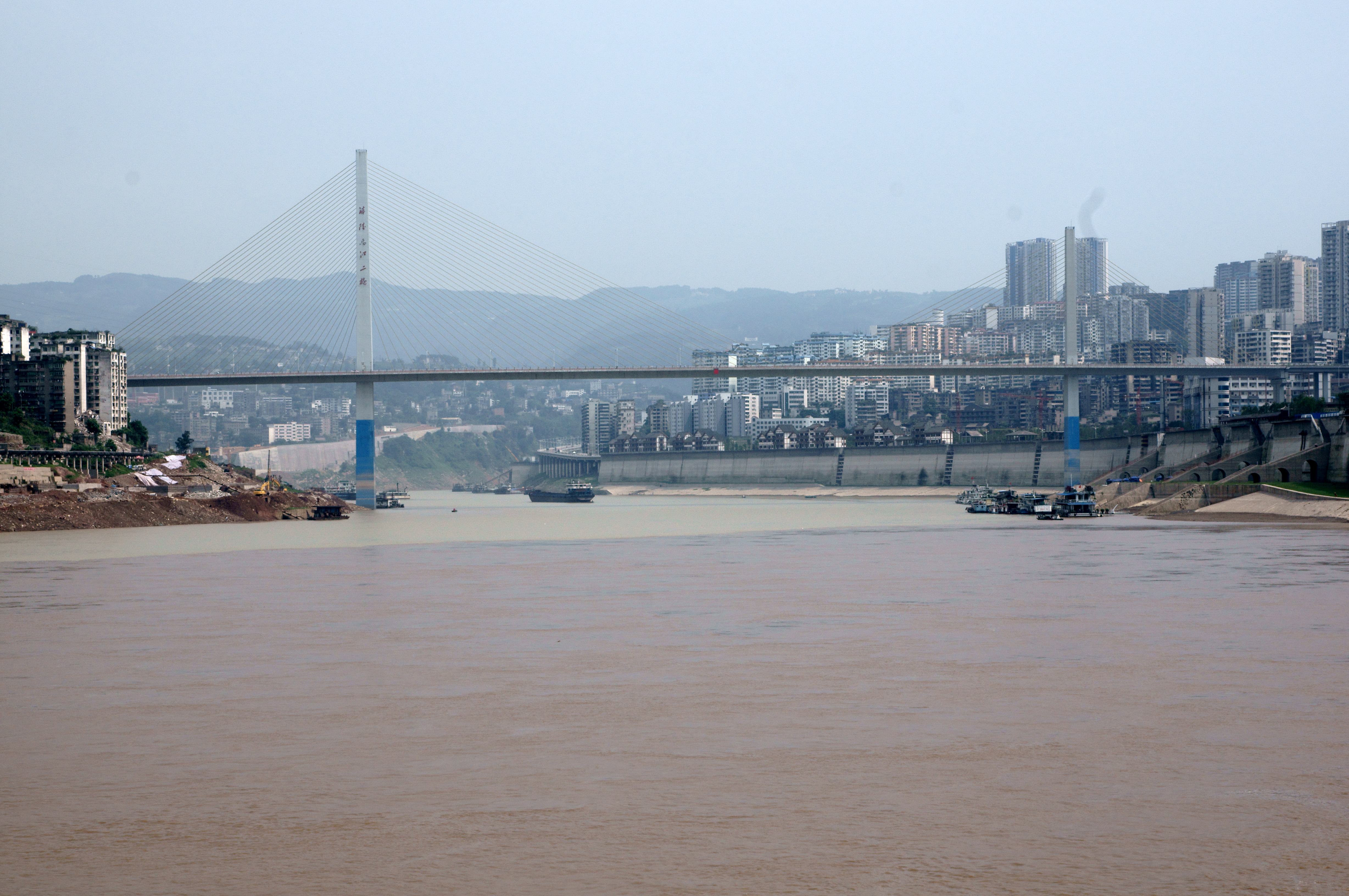 Yangtze River river cruise, Fuling City, China